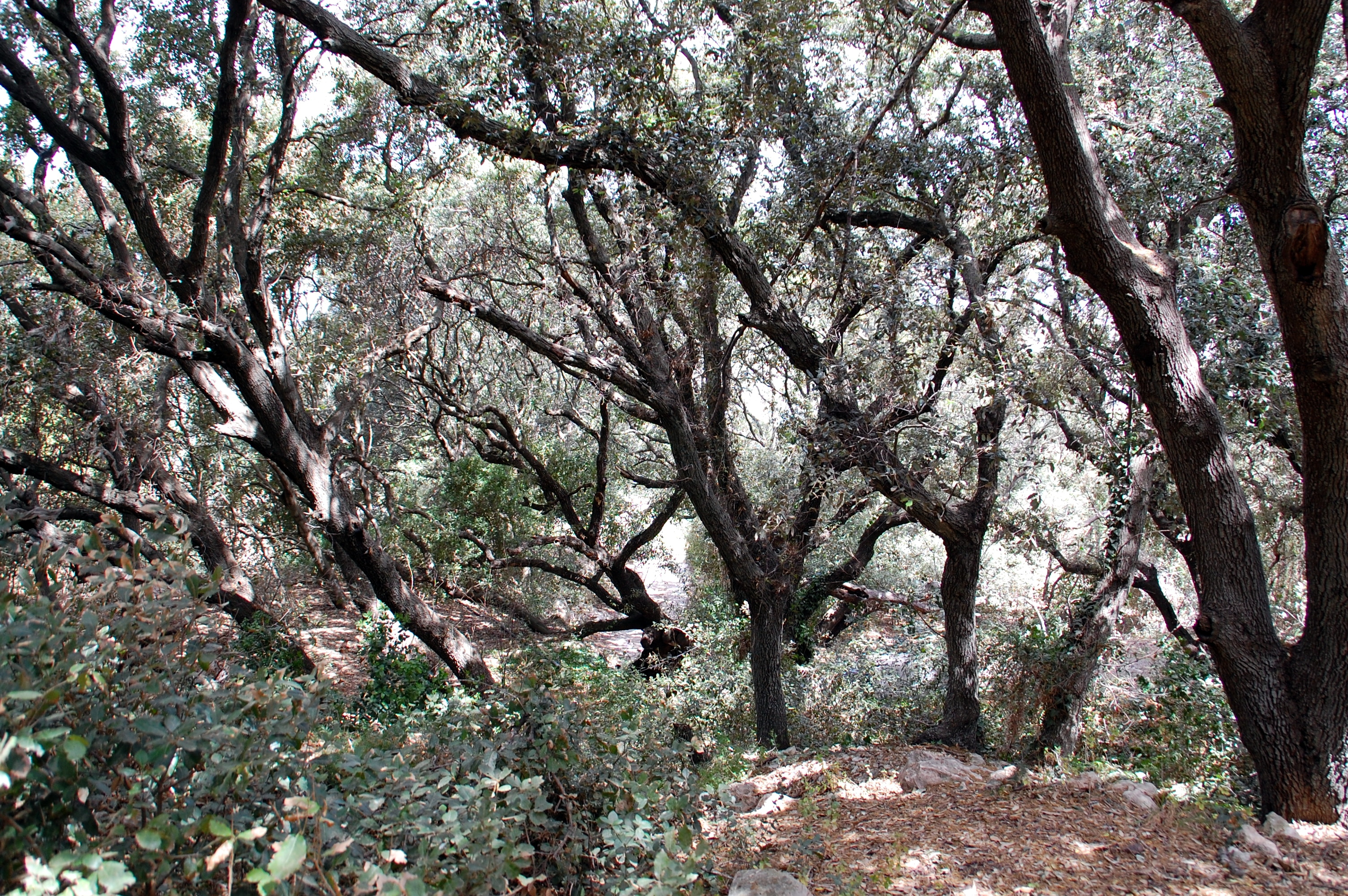 The last remnants of Quercus ilex-forests in Malta, 600 to 900 years old, just a few trees still present from a once almost completely forested island